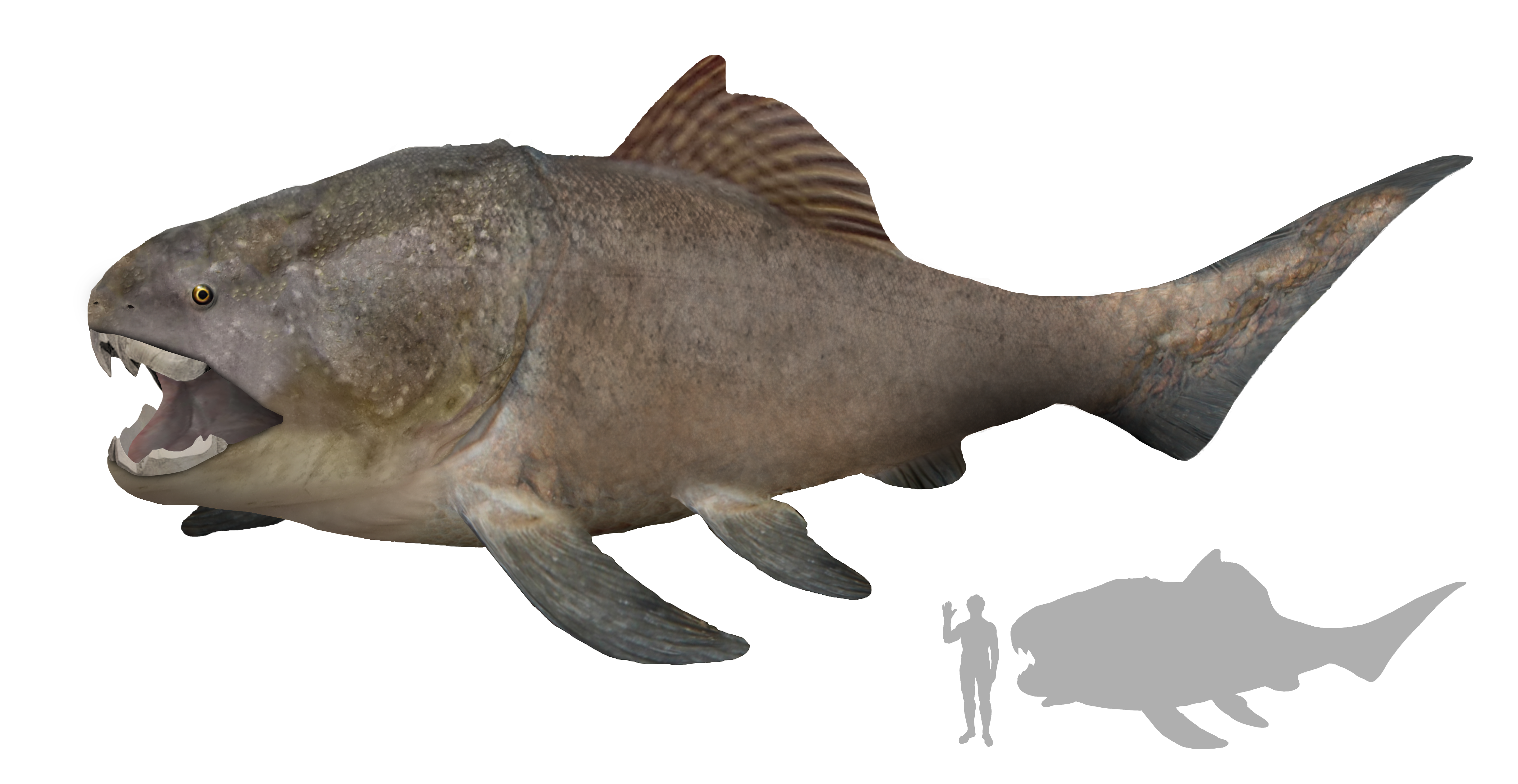 Artist's impression of Dunkleosteus terrelli.